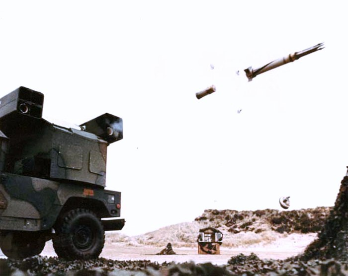 A Starstreak missile being launched from the M1097 Avenger Air Defense platform